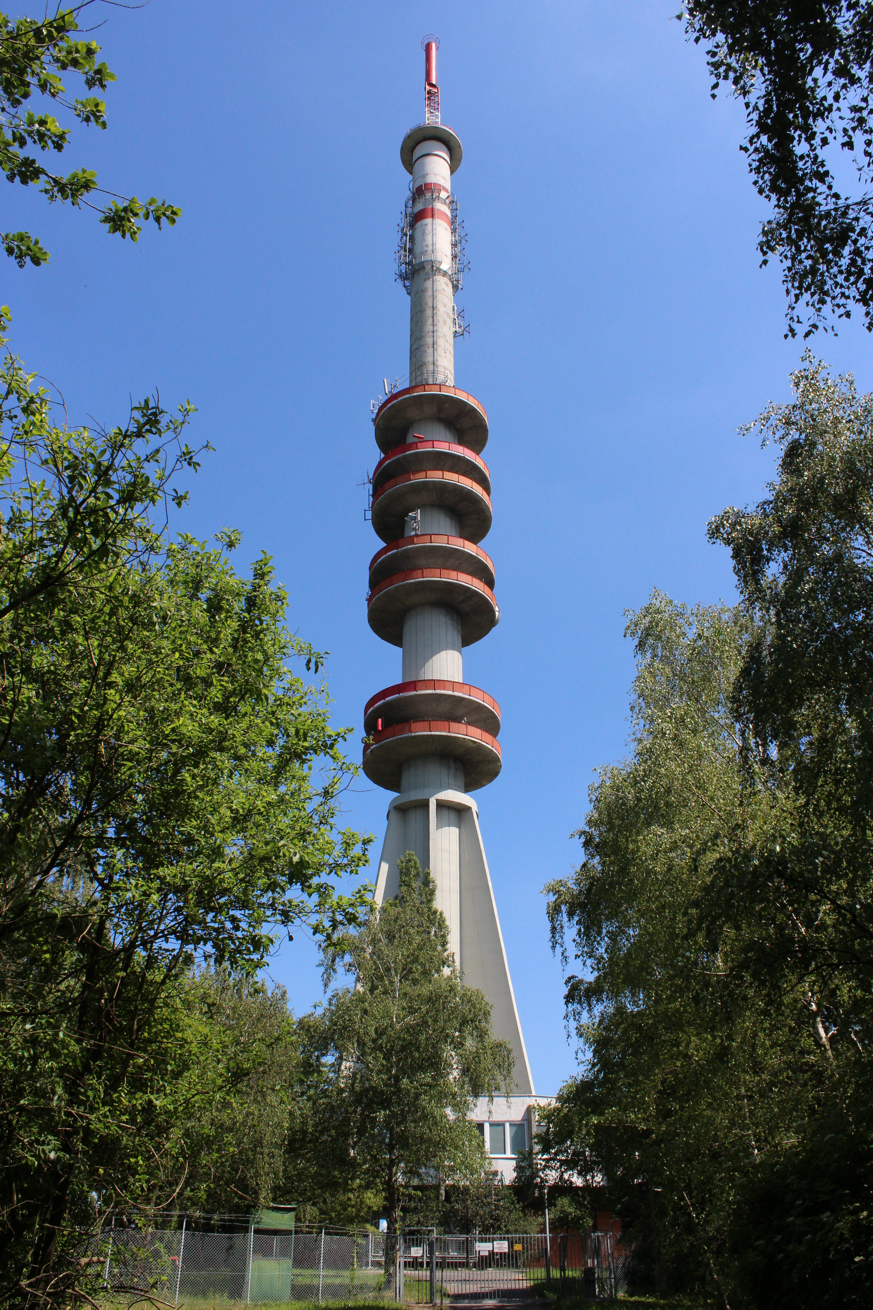 TV tower (Sopron, Hungary), built in 1968–1970, architect Sándor Kovács (Postai Tervező Iroda – POTI).